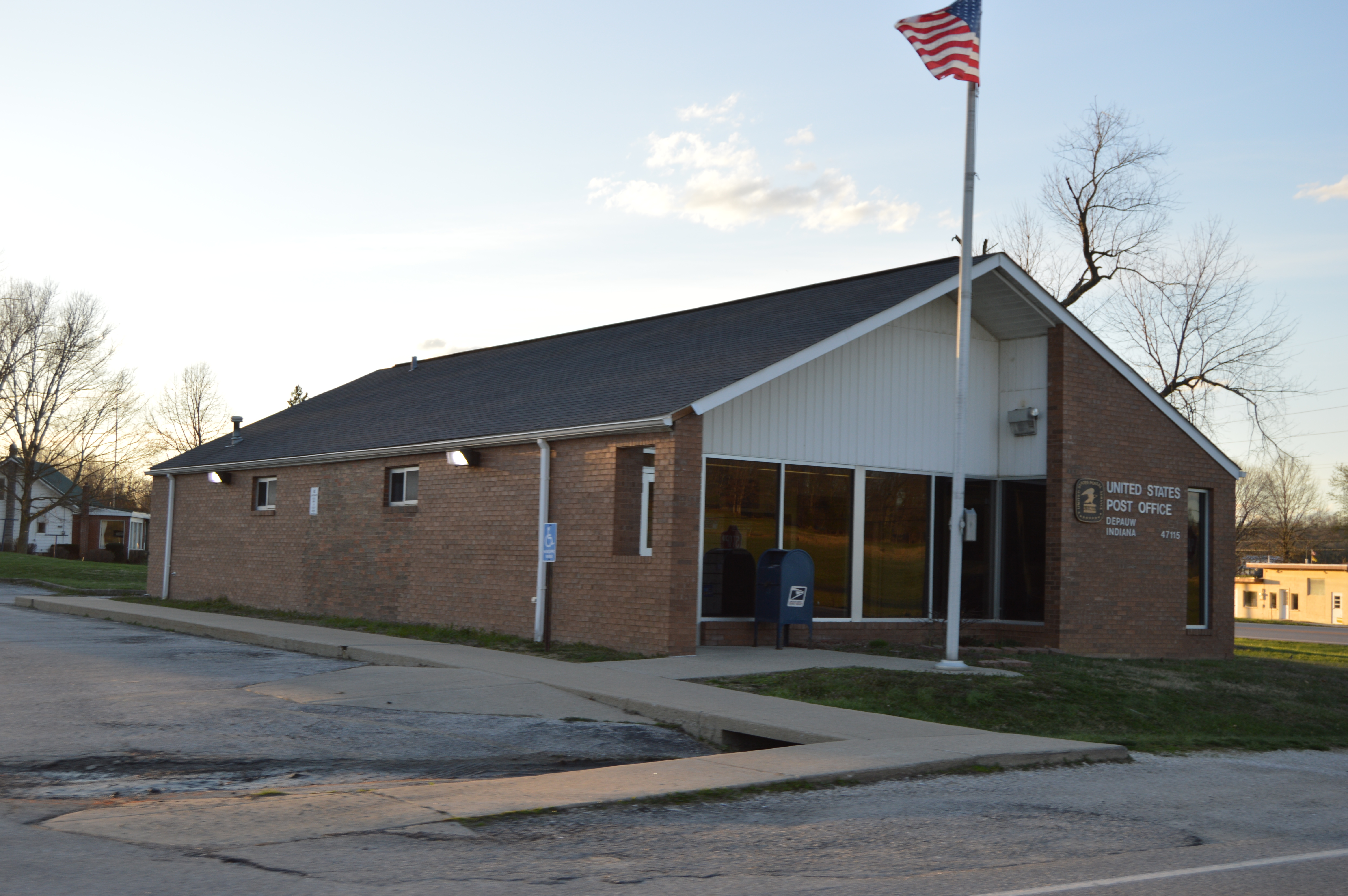 Front and southern side of the Depauw post office, located at the junction of State Roads 64 and 337 in Depauw, Indiana, United States.